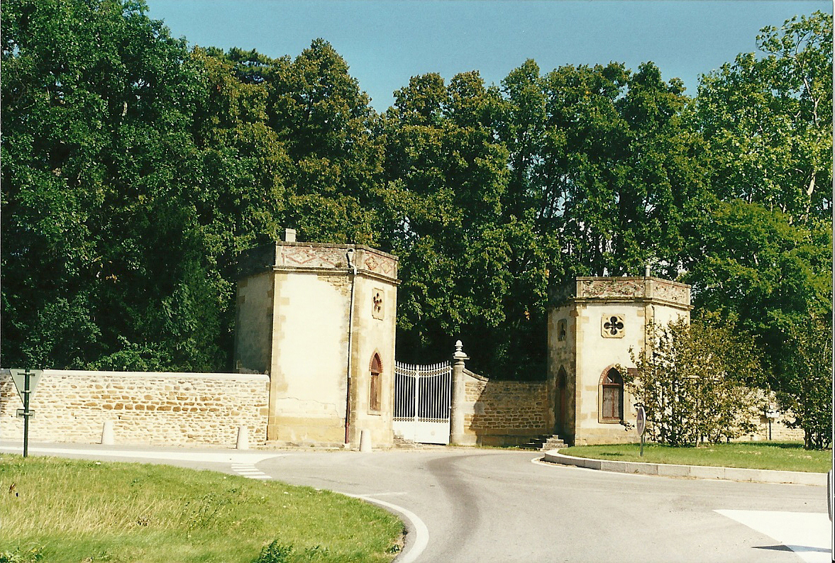 Entrance gate to Château de Terrebasse